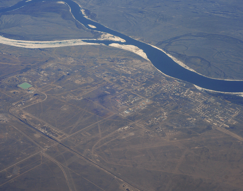 Aerial view of Kurchatov, Kazakhstan